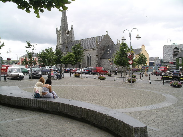 Listowel Town Square. Note Castle on the right of image.